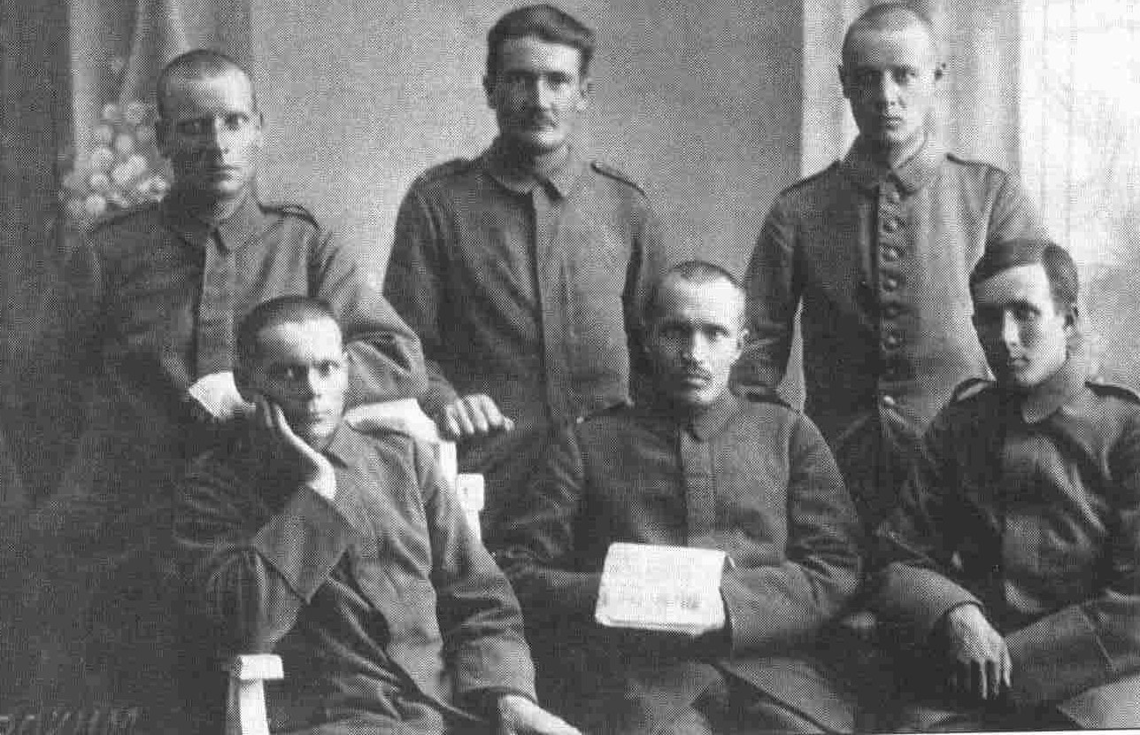 Members of left wing opposition group among Finnish volunteer corps in Germany (Königlich Preussisches Jägerbataillon Nr. 27, The Finnish 27th Jäger Battalion)